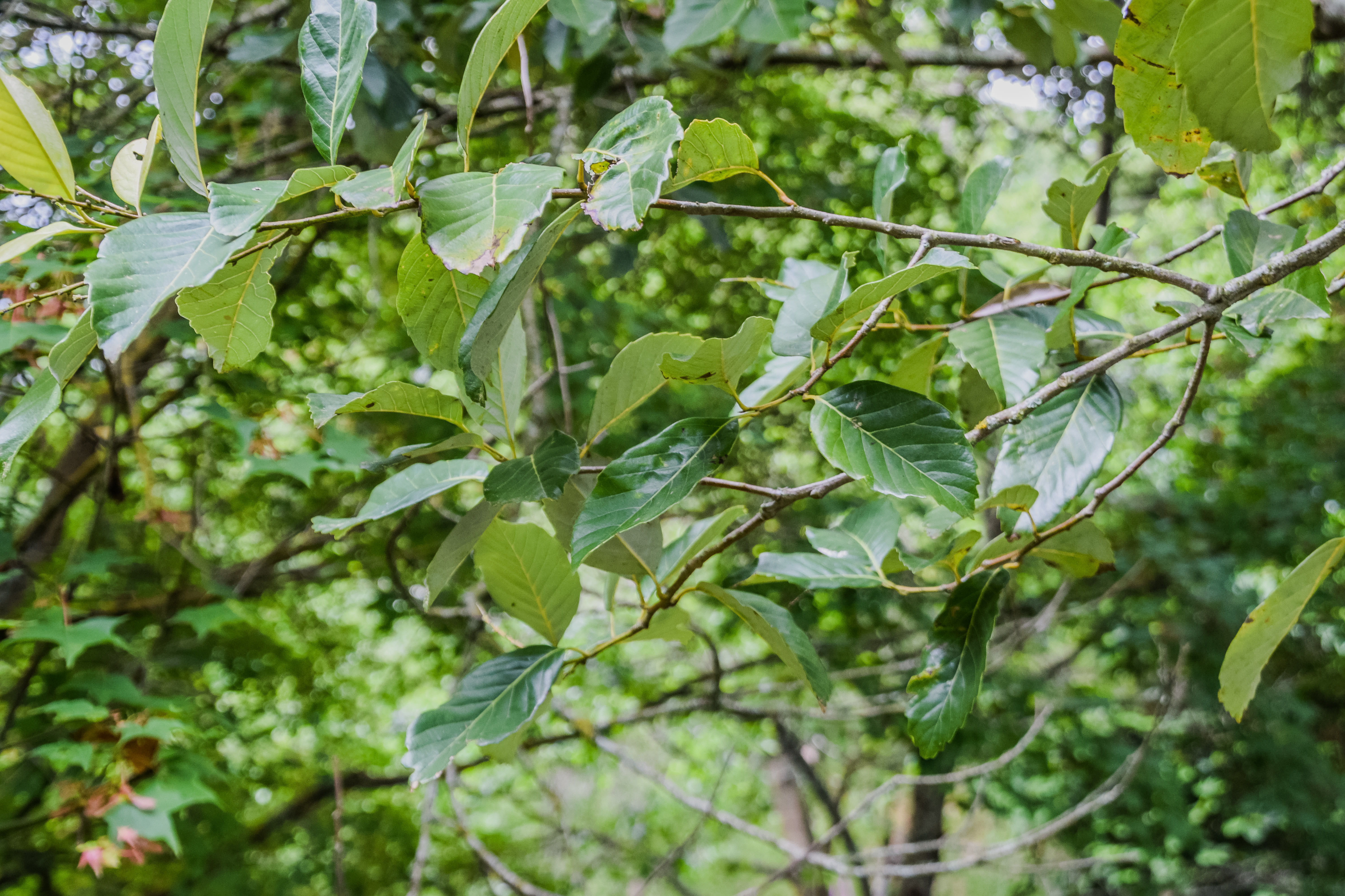 Castanopsis delavayi in Hackfalls Arboretum, Gisborne Region, New Zealand